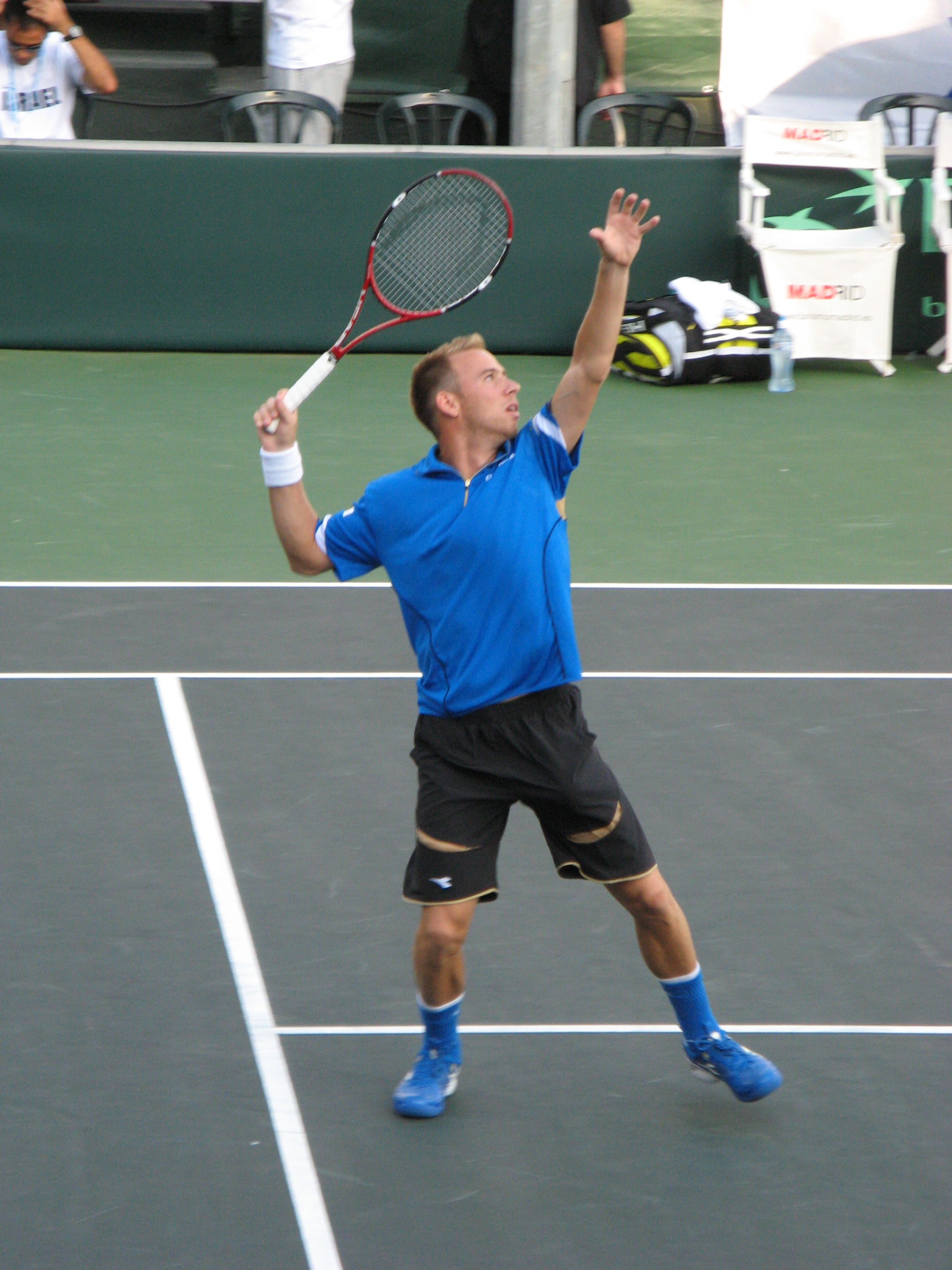 Israeli tennis player Dudi Sela during a Davis Cup match against Ivan Miranda of Peru